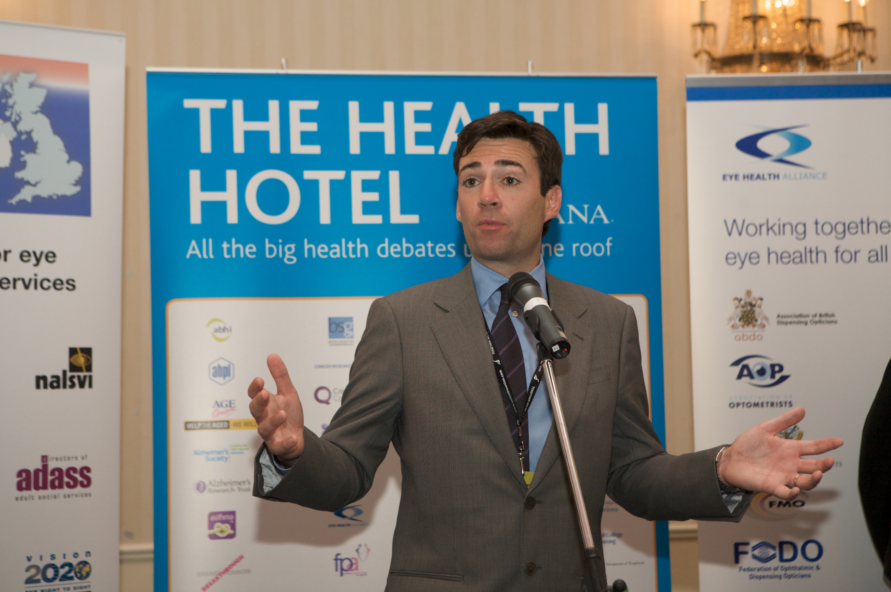 Andrew Burnham, British politician and Secretary of State for Health, speaking during the Health Hotel reception at the Hilton Metropole, Brighton, during the Labour Party Conference 2009.